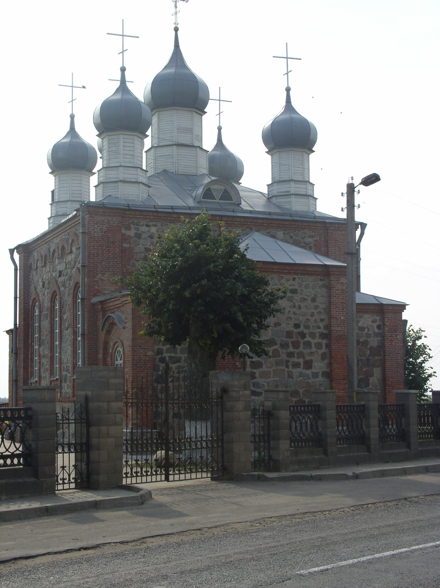 Church of Ascension. Rasony, Belarus.